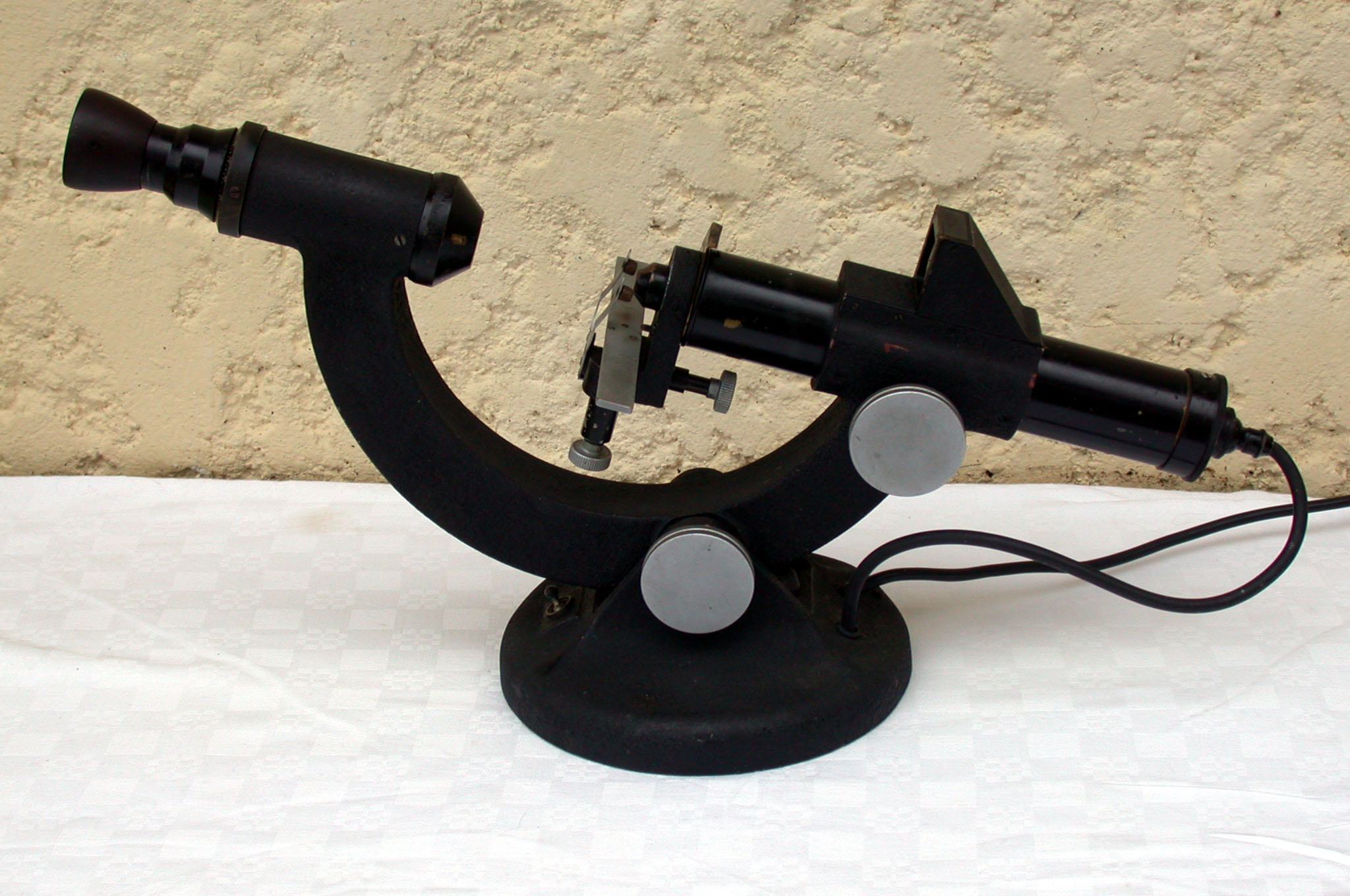 Frontophocometer ou frontofocometer J. & H. TAYLOR (B'HAM) LTD. Birmingham, England.